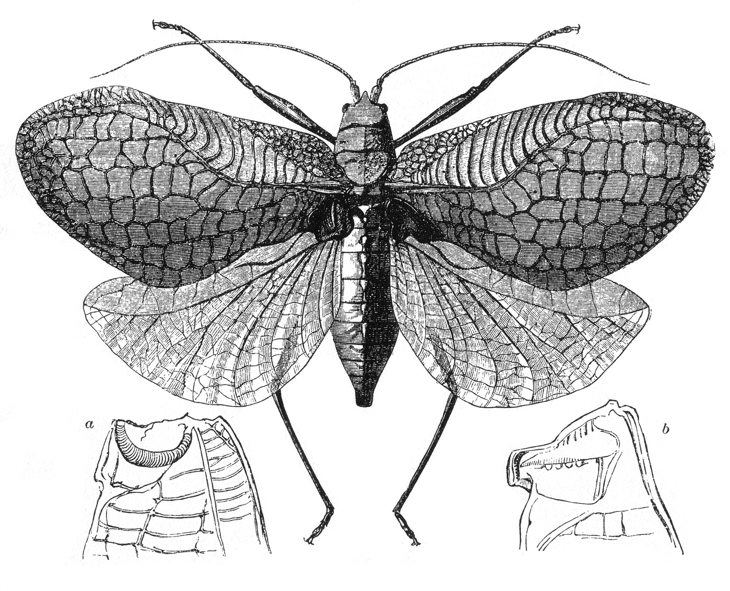 Caption: "Musical Cricket (Chlorocœlus Tananá). (now a synonym of Thliboscelus hypericifolius) a. b. Lobes of wing-cases transformed into a musical instrument."